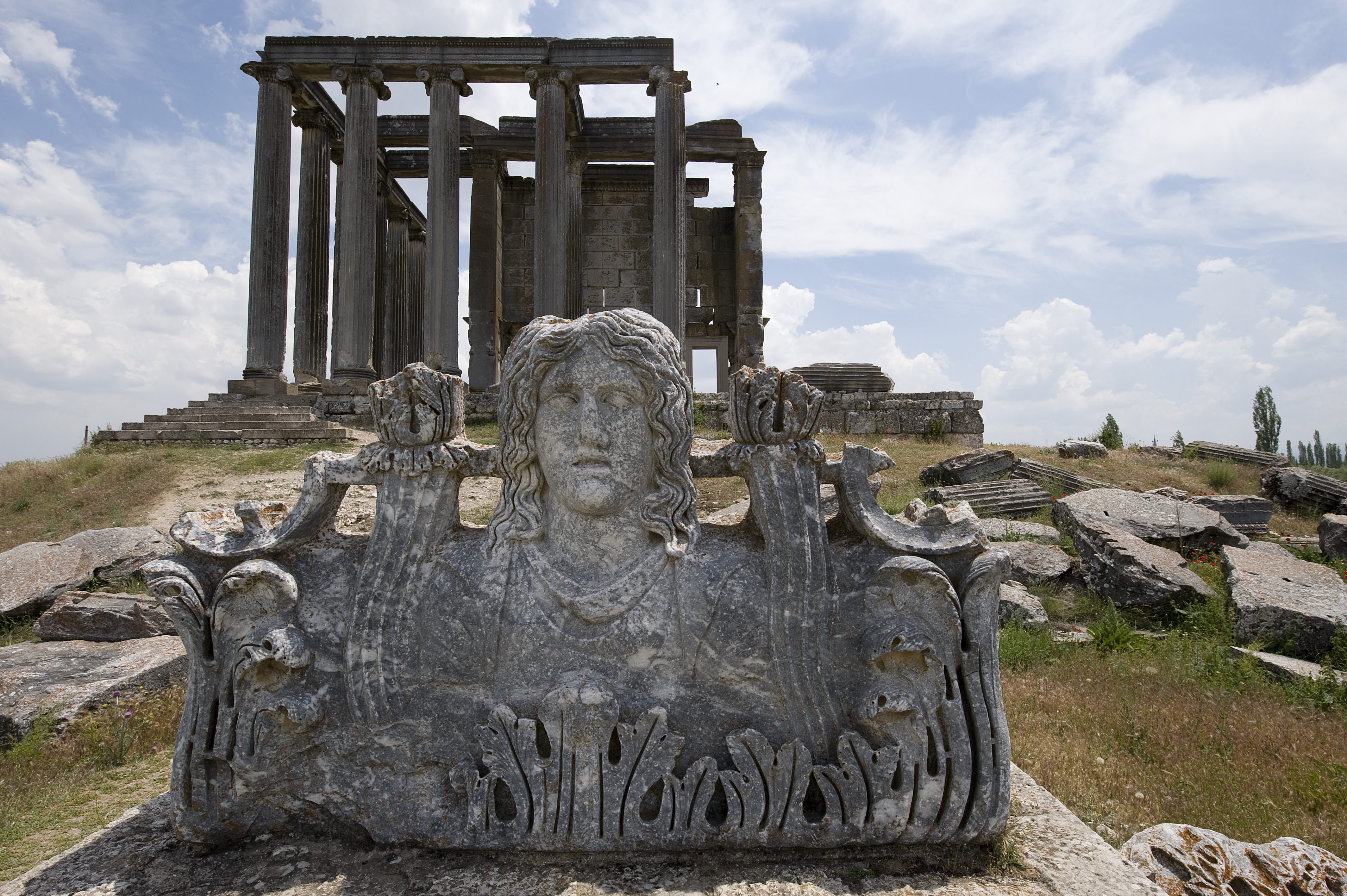 In front of the temple, formerly part of the acroterion , stands a big bust of a female. It seems to have been her that led to the conclusion the temple was dedicated to both Zeus and Sibyl.